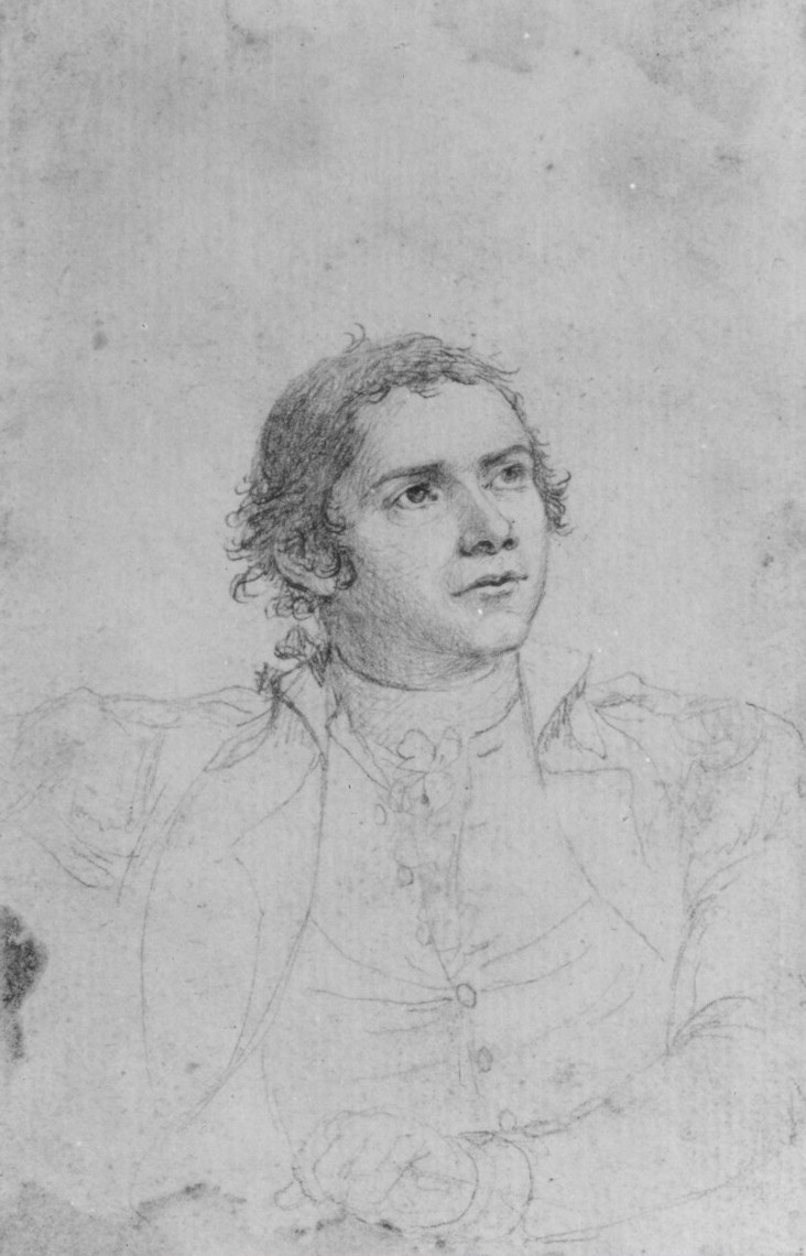 Sketch of Hugh Mercer, Jr. Study for The Death of General Mercer at the Battle of Princeton, January 3, 1777. Image of one of General Hugh Mercer's sons, not the general himself, who died of wounds at the Battle of Princeton.